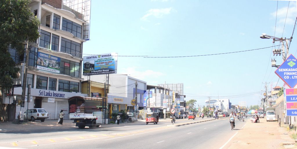 A Stretch of Ja-Ela through the Negombo-Colombo Road